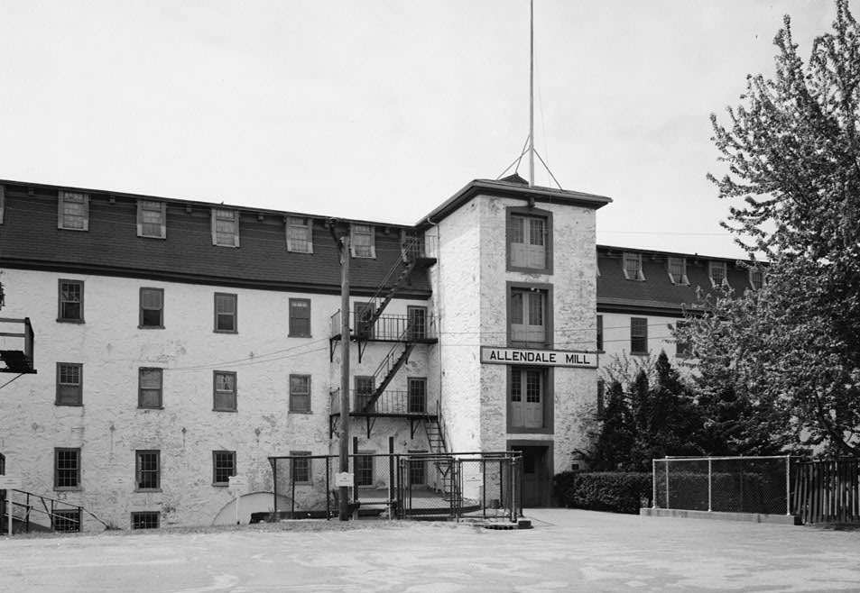 Allendale Mill — 494 Woonasquatucket Avenue, Centerdale, Providence County, Rhode Island — north elevation, looking west. Image: Historic American Buildings Survey of Rhode Island.